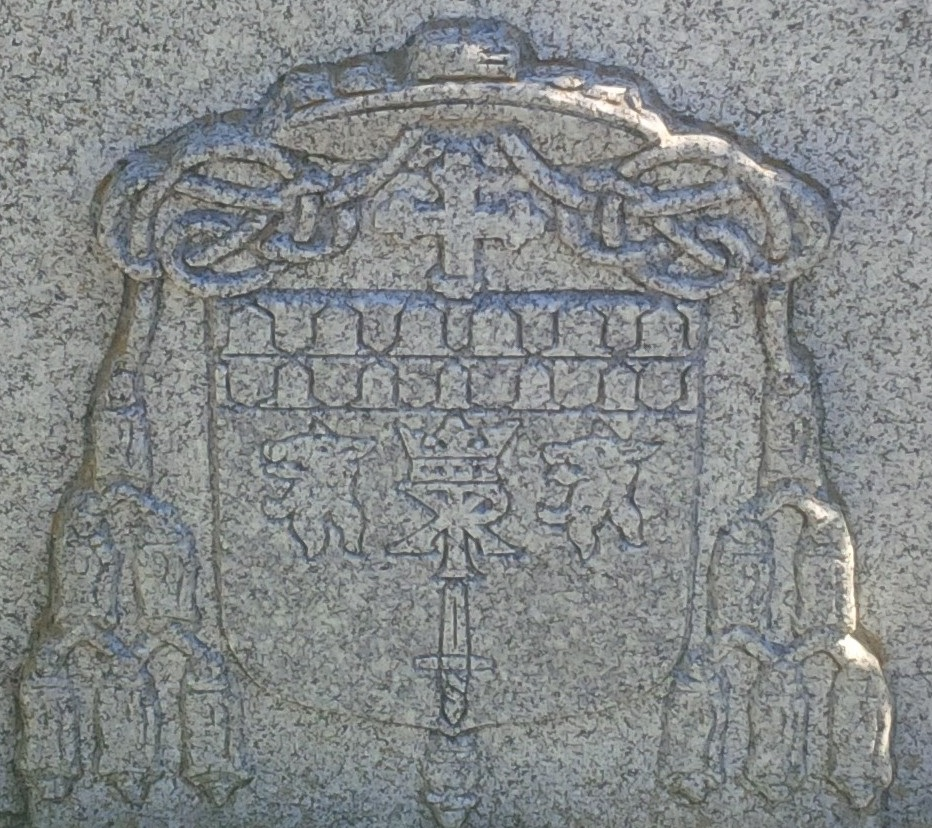 Bishop Paul Reding's Coat of Arms as found on his grave in Holy Sepulchre Cemetery, Burlington Ontario